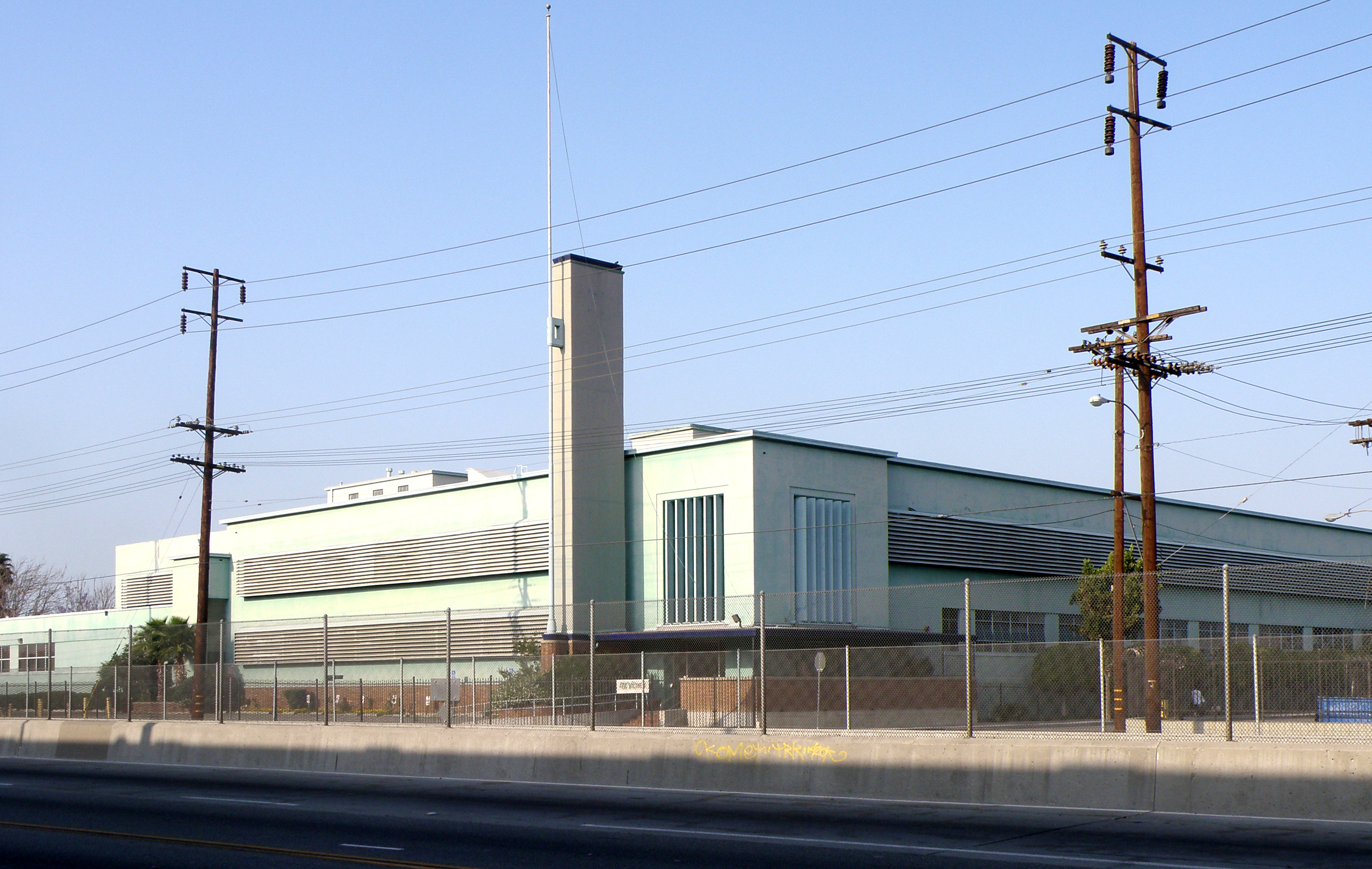 Ducommun building, built in 1941. 4890 S. Alameda St, Los Angeles.